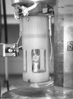 RUS assembly